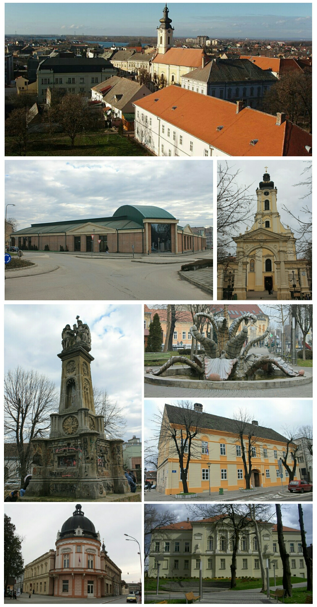 Collage of Sremska Mitrovica, (Panorama of the city, Imperial Palace in Sirmium, Orthodox Church of St. Dimitrius in Sremska Mitrovica, Monument to the Holy Trinity, The ,,Stone flower" fountain, Military- border building, Town library, Town Gallery)